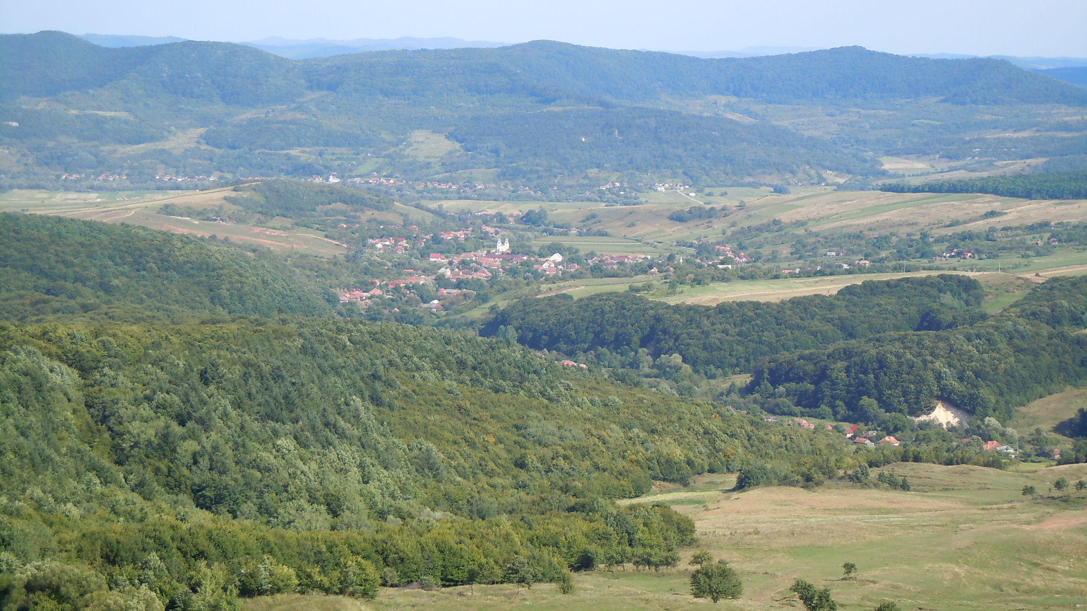 Landscape of Porolissum 01